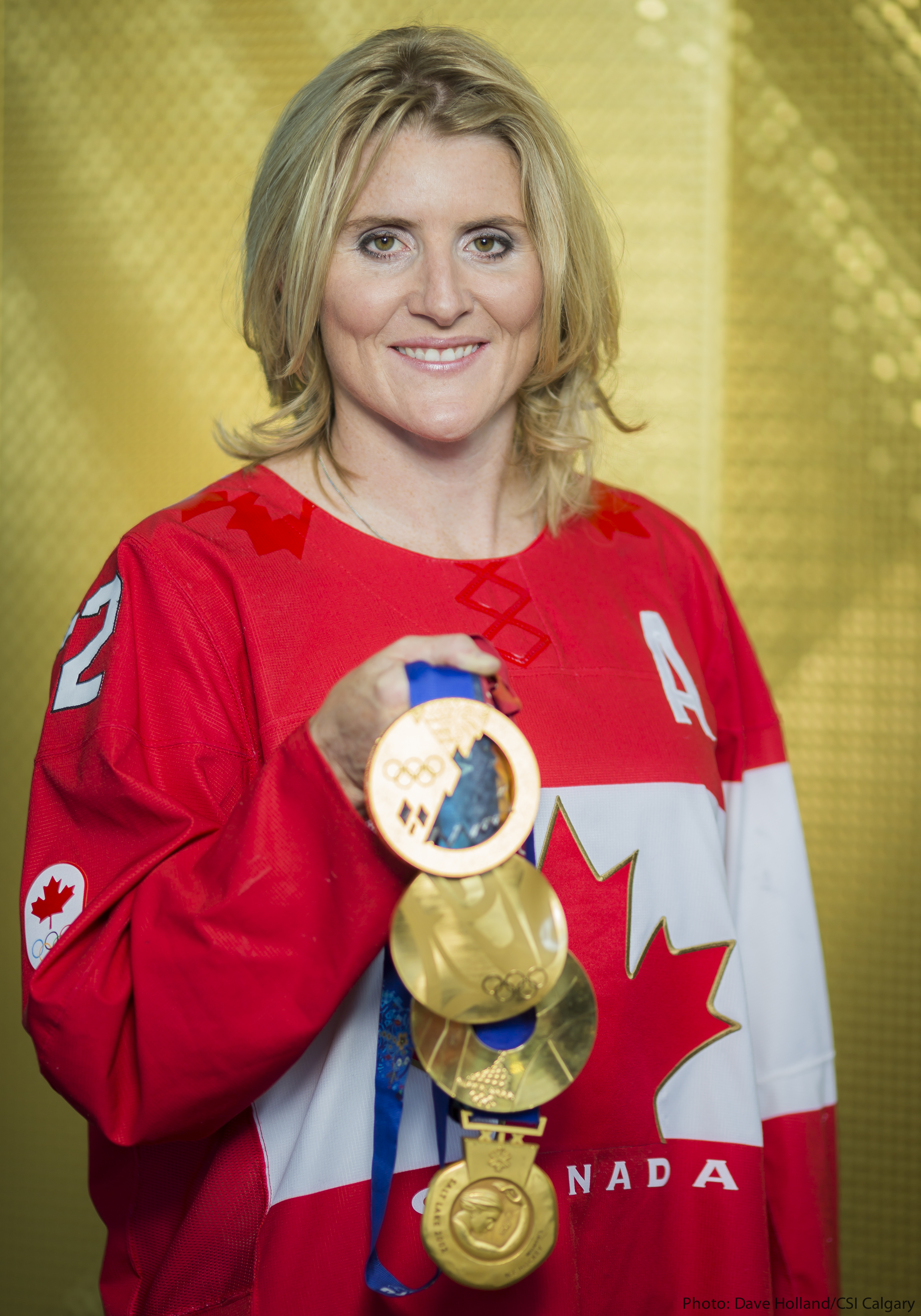 A photoshoot with Sochi Olympic gold medalist Hayley Wickenheiser at the Winsport, Markin MacPhail Centre in Calgary, Alberta on May 27, 2014.